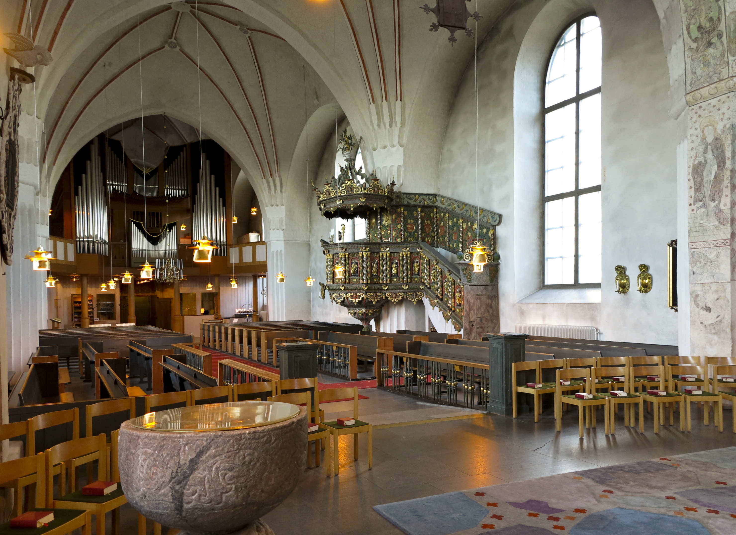 Nederluleå church, Luleå, Sweden. Nave